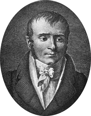 Portrait of Xavier Bichat